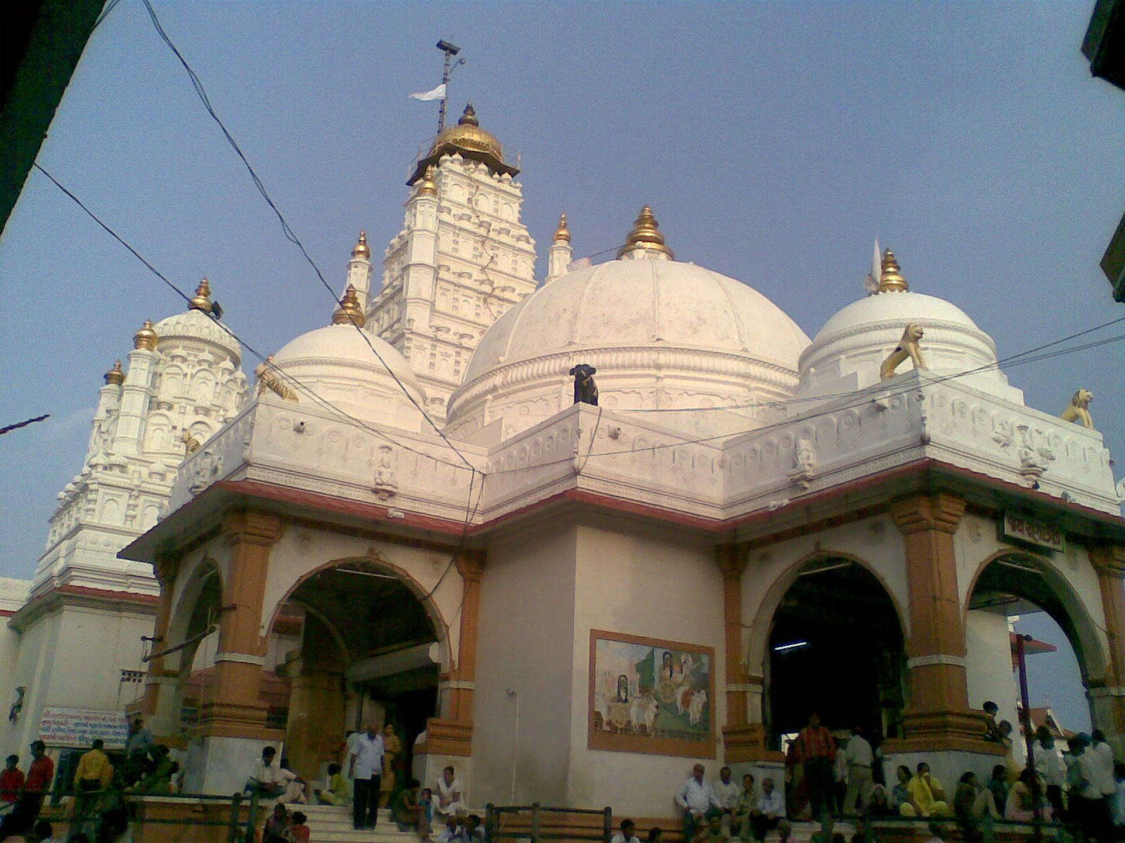 Photograph of Shree Ranchhodji Temple situated at Dakor, Kheda, Gujarat